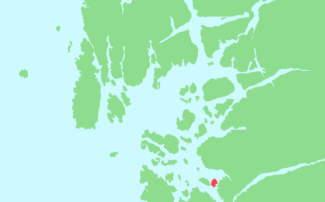 Locator map of Idsal, Rogaland, Norway